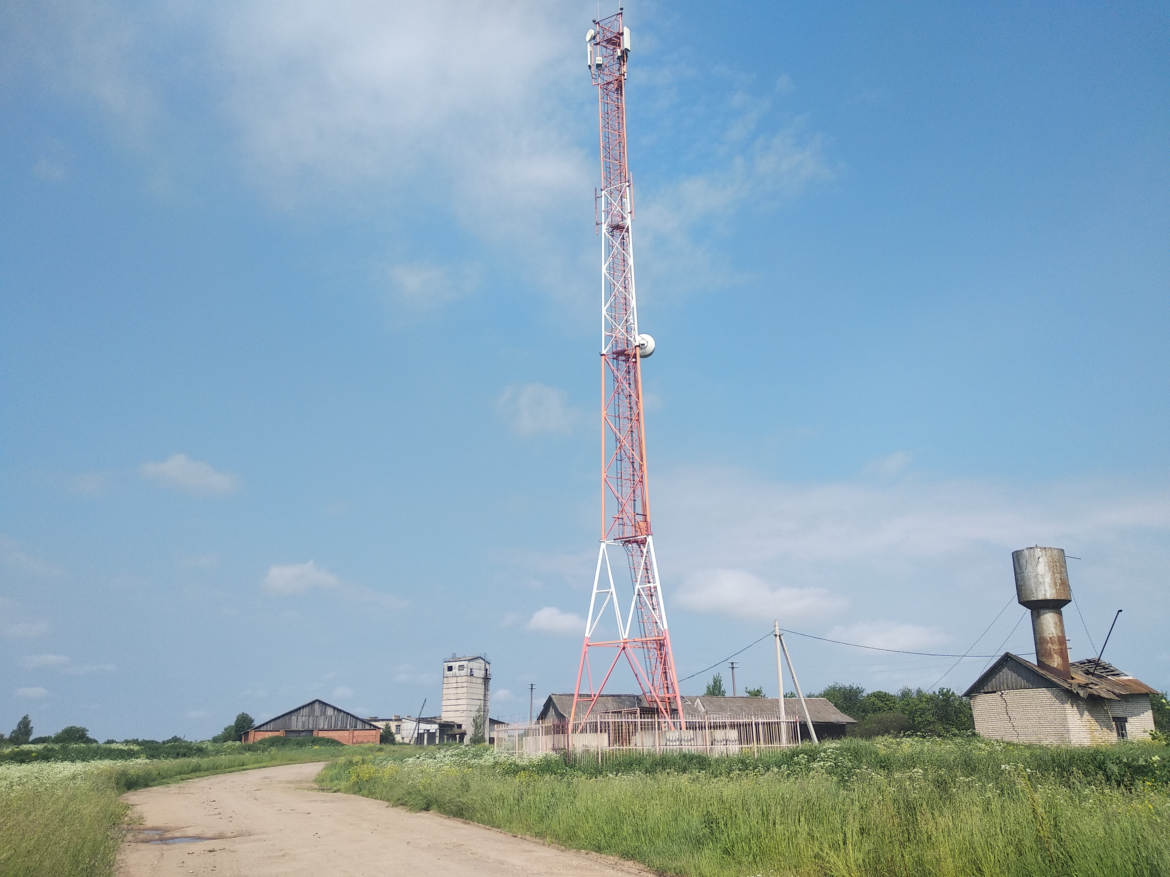 Poddybye village (Yaroslavl Oblast, Russia)